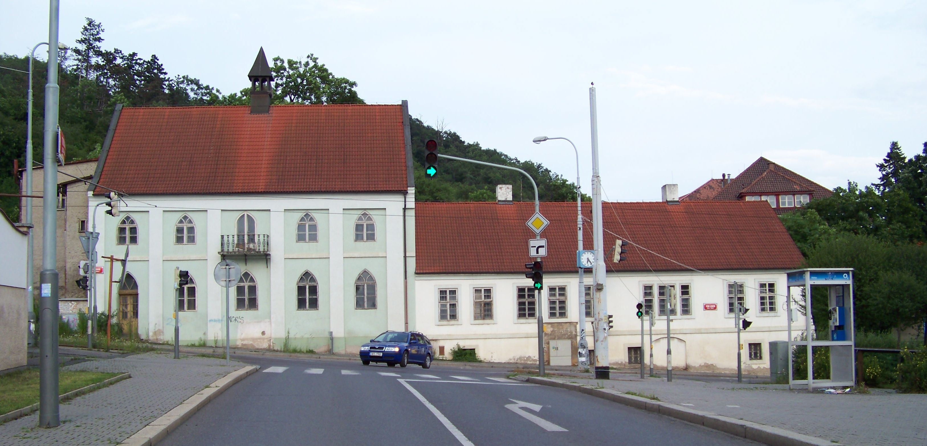 Troja, Prague, the Czech Republic.